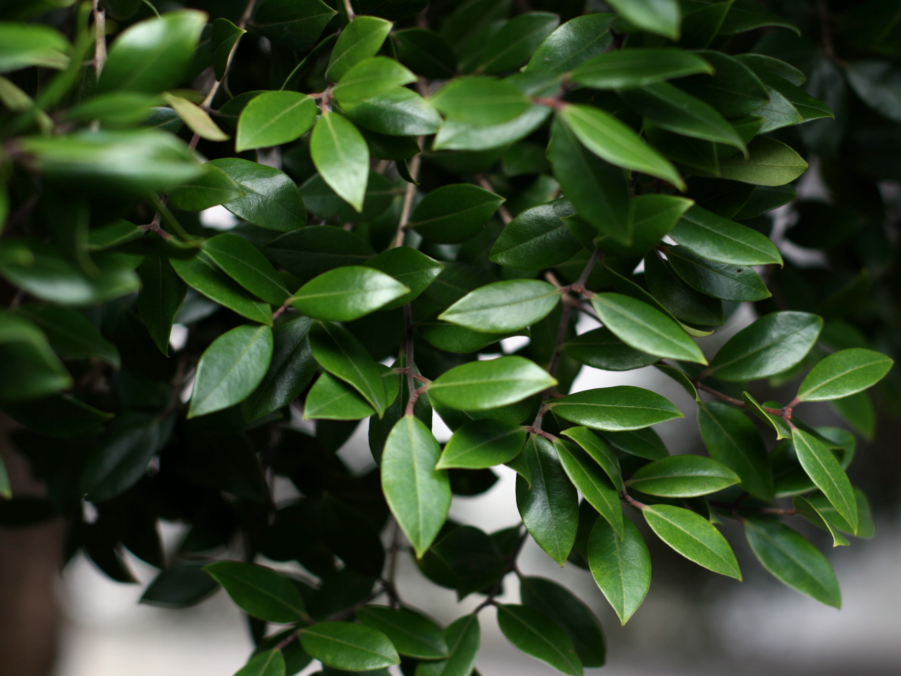 Foliage of a young specimen of Metrosideros bartlettii, Auckland, New Zealand